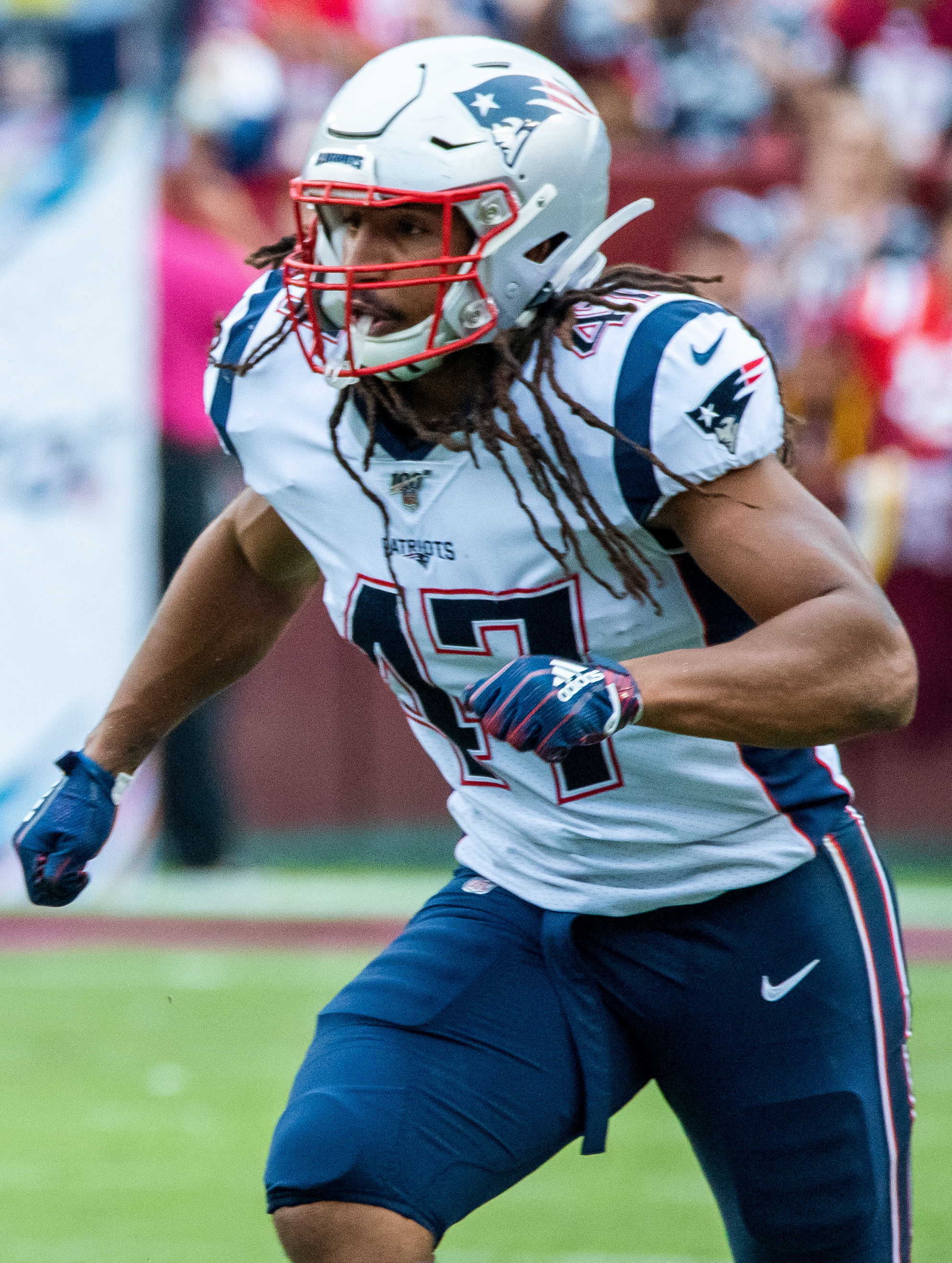 In 2019